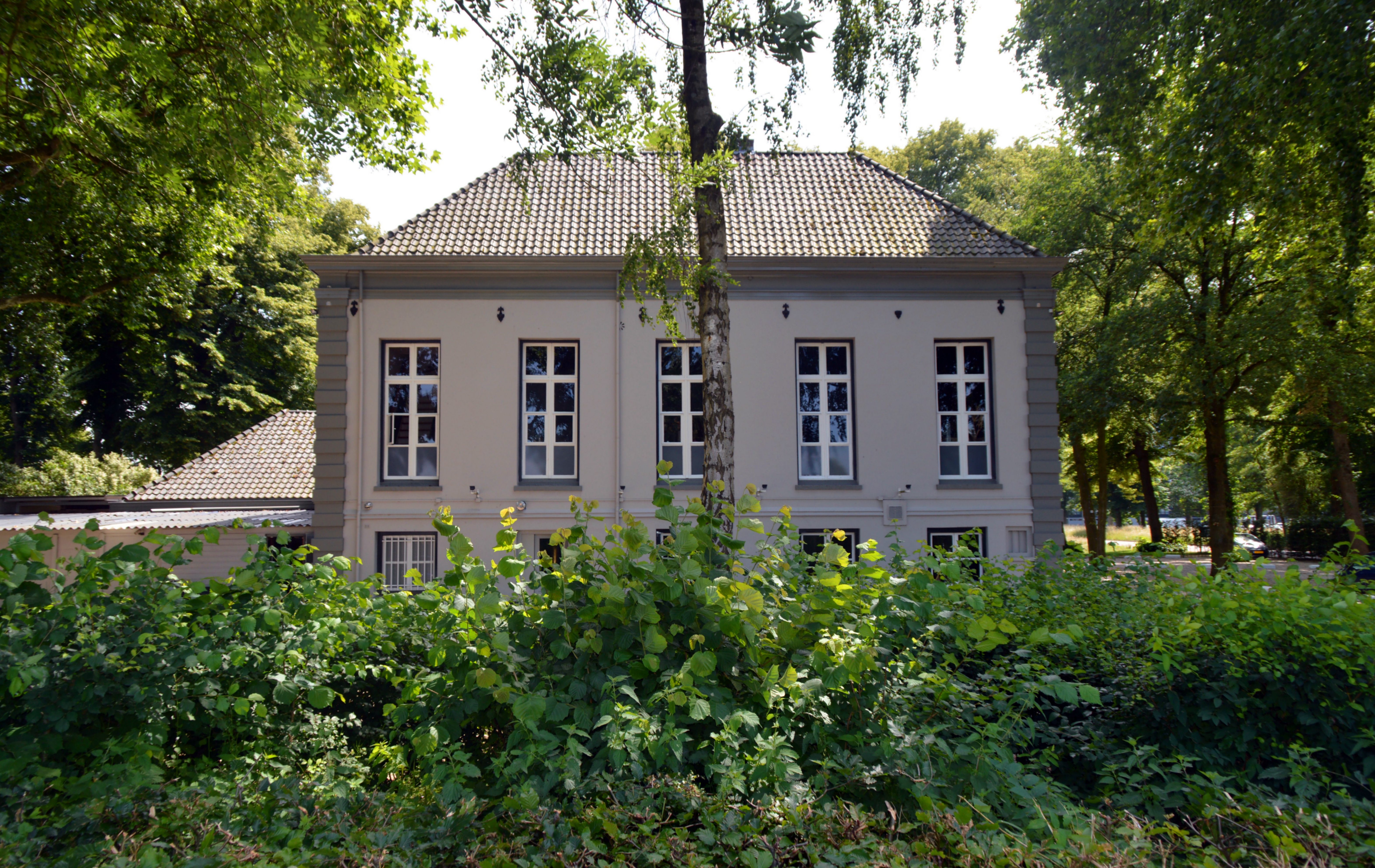 Huis Duckenburg, an orangery built in 1730, which Willem van Schuylenburg converted into a residence. Lankforst Nijmegen